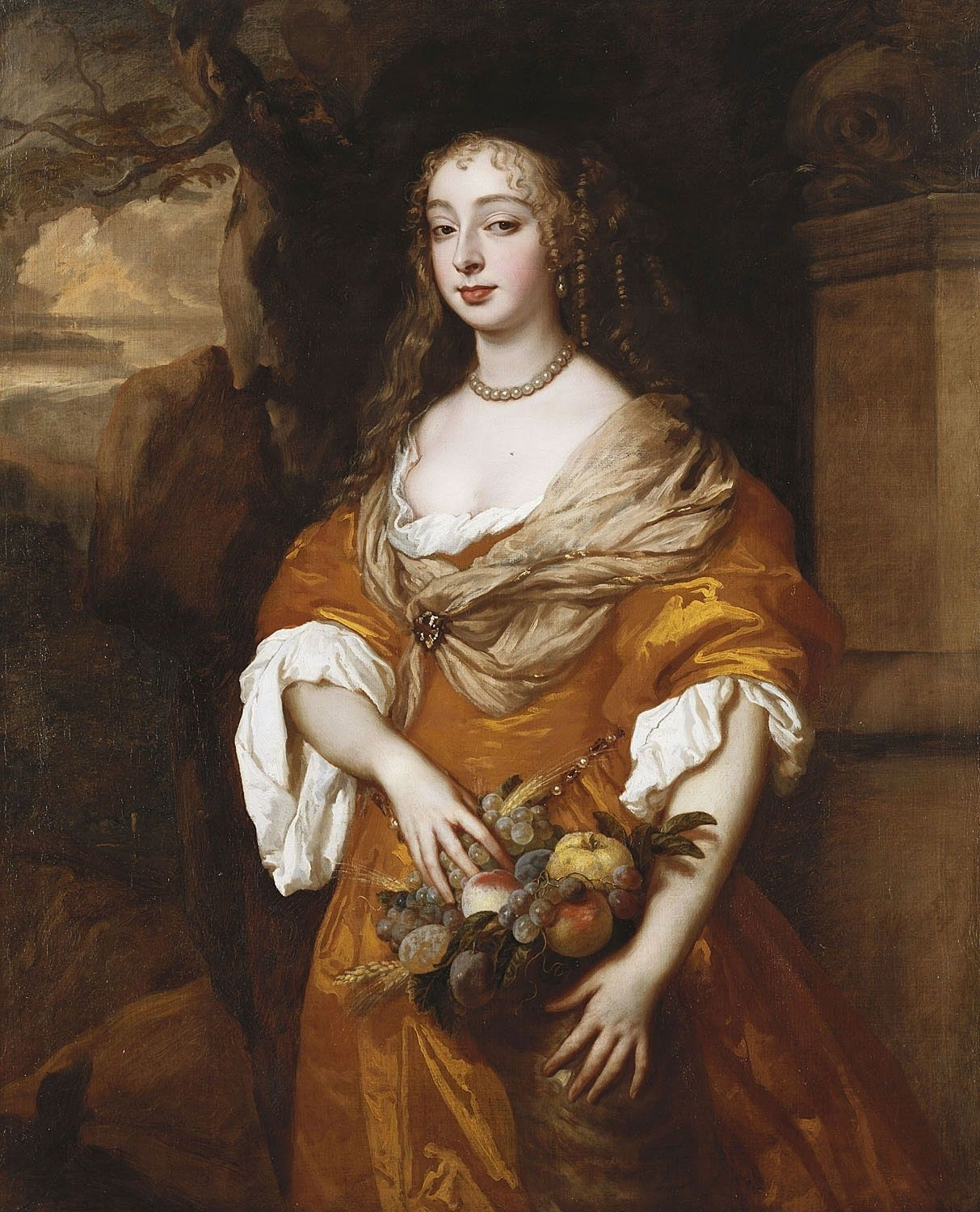 Jane Needham was the daughter of Sir Robert Needham and in 1660 she married Charles Myddelton of Ruabon in Wales. Described by John Evelyn as 'that famous and indeed incomparable beauty', she was pursued by both King Charles II and the Duke of York, but resisted becoming a royal mistress, although she was the mistress of the Duke of Montagu and later the Earl of Rochester. Her beauty inspired the poets Edmund Waller and Saint-Evremond. Pepys also records that she was a skilful amateur painter.